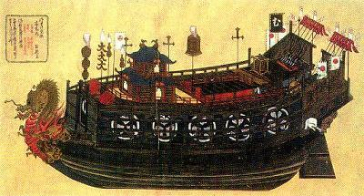 Japanese Atakebune warship.